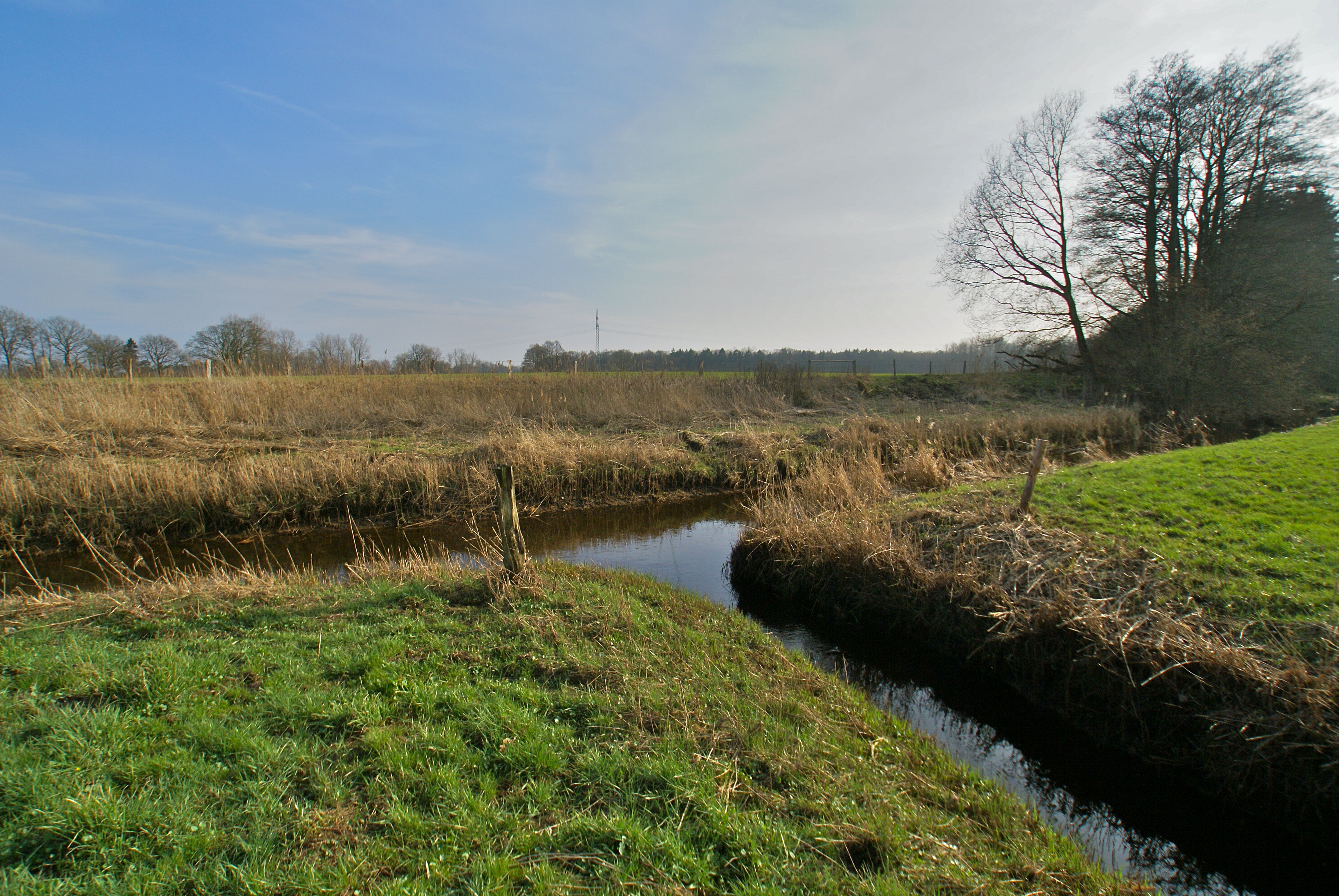 Nahe (Holstein), Germany: The confluence of the rivers Lankau and Alster